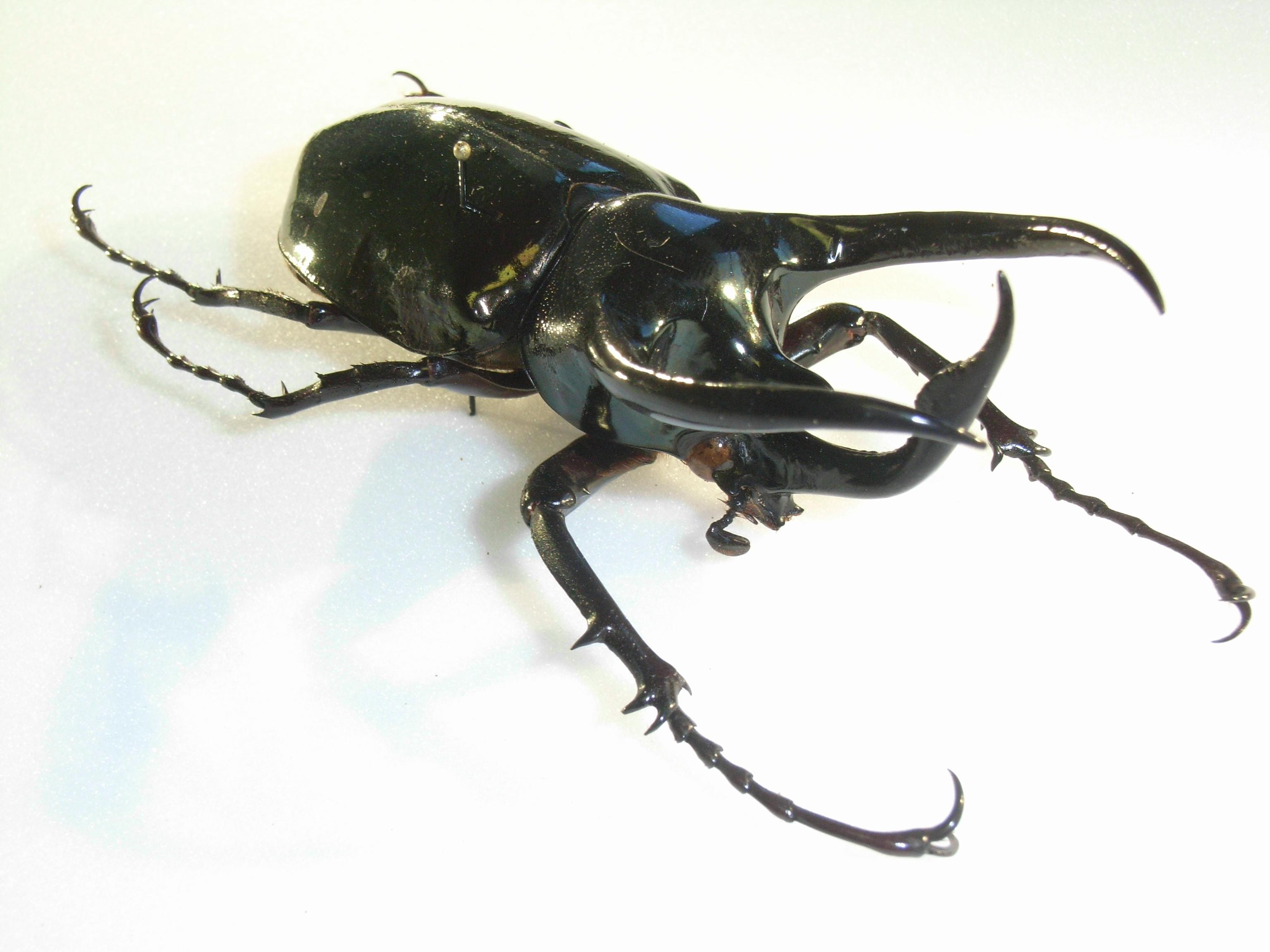 Chalcosoma atlas Ex coll. Felix Stumpe